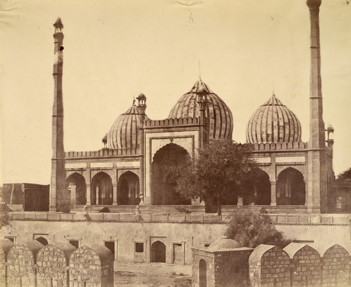 Photograph of the Zinat-ul Masjid in Delhi from 'Murray Collection: Views in Delhi, Cawnpore, Allahabad and Benares' taken by Dr. John Murray in 1858 after the Uprising of 1857. The Zinat-ul Masjid is located on the north-eastern side of the Red Fort's palace constructed by Shah Jahan (r. 1627-1658) for his new city Shahjahanabad. Zinat-ul Masjid was built by a daughter of the Mughal Emperor Aurangzeb (r.1658-1707) in 1707.